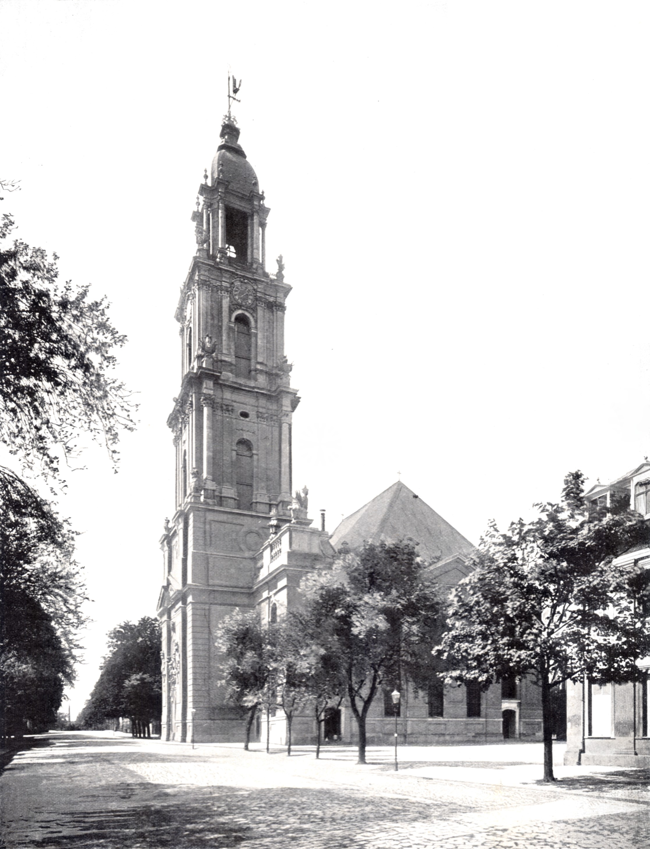 Potsdam - Garnisonskirche around 1900